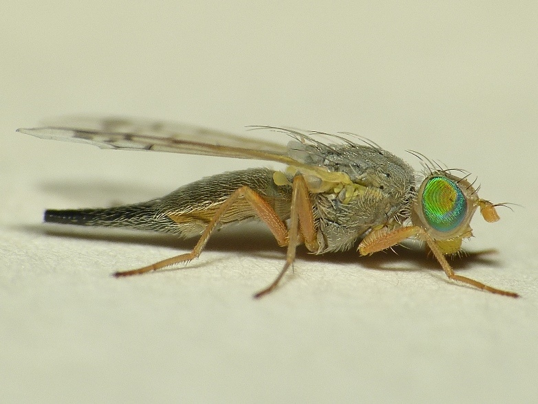 Acanthiophilus helianthi, location: The Netherlands - Rhenen - Blauwe Kamer - Gelderland